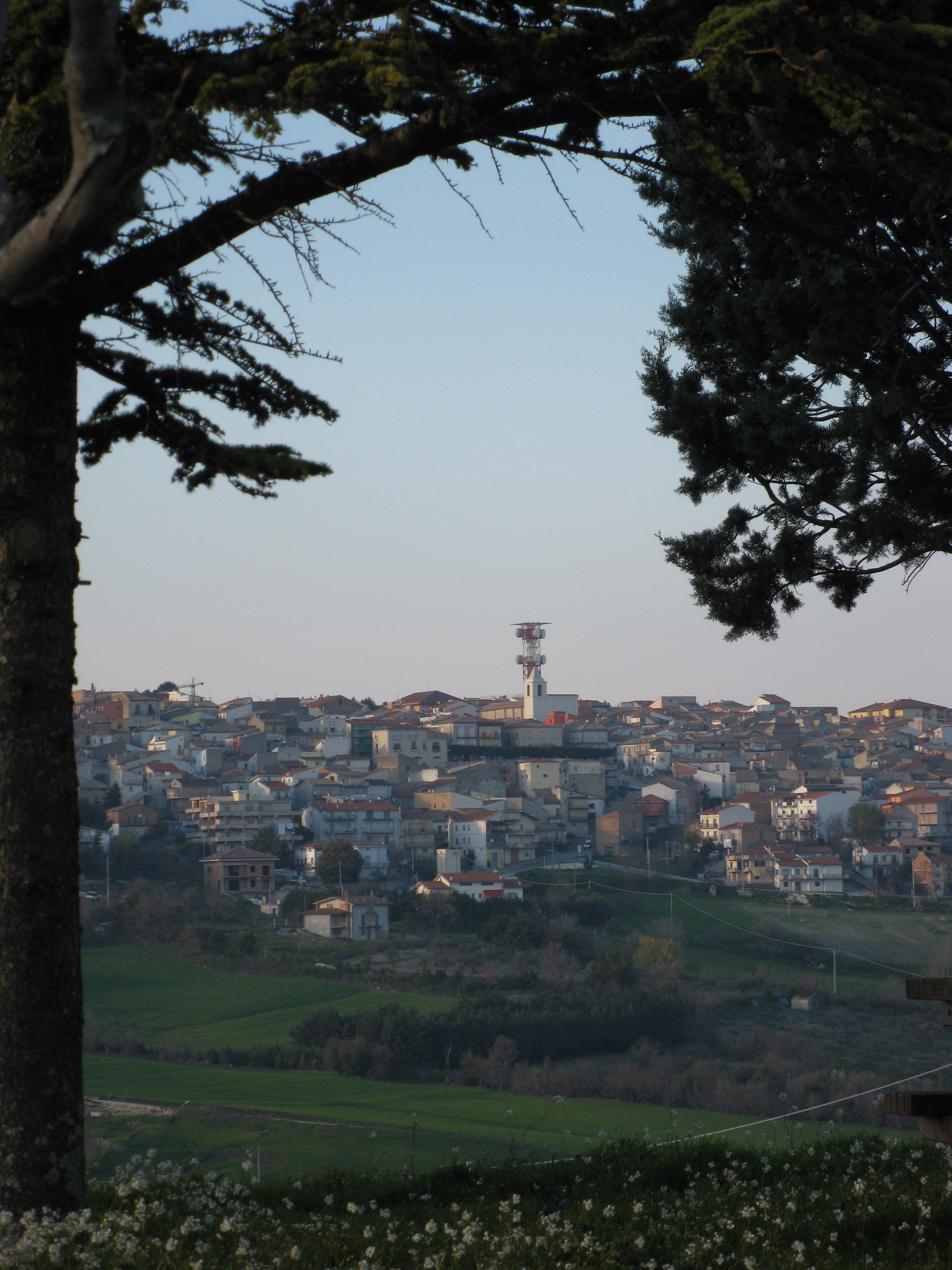 Town of Santa Croce di Magliano, Italy